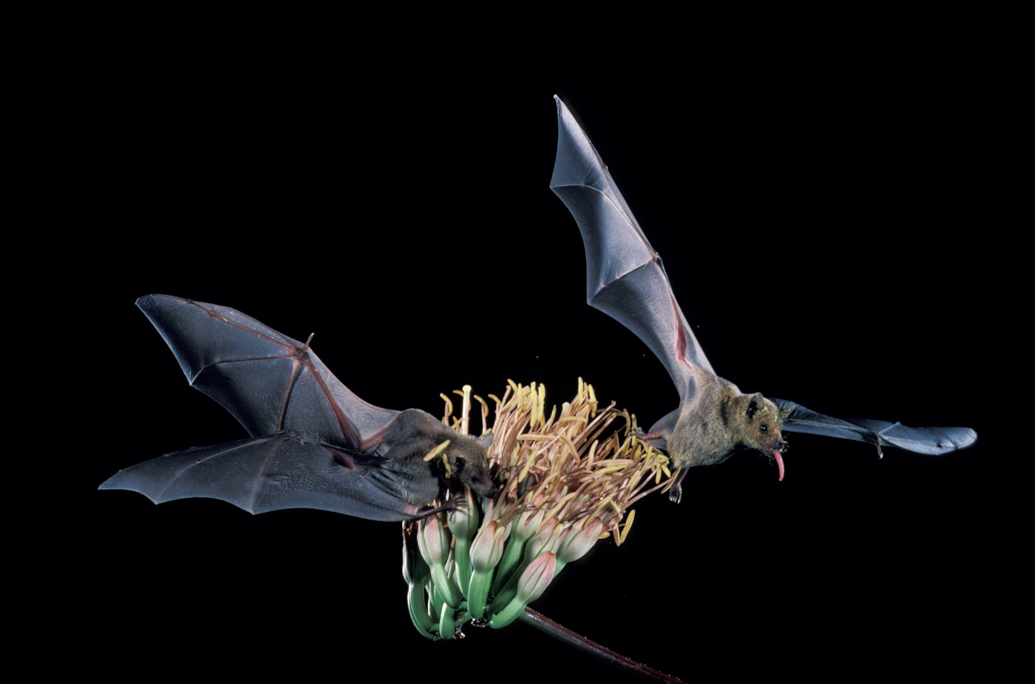 Credit: USFWS